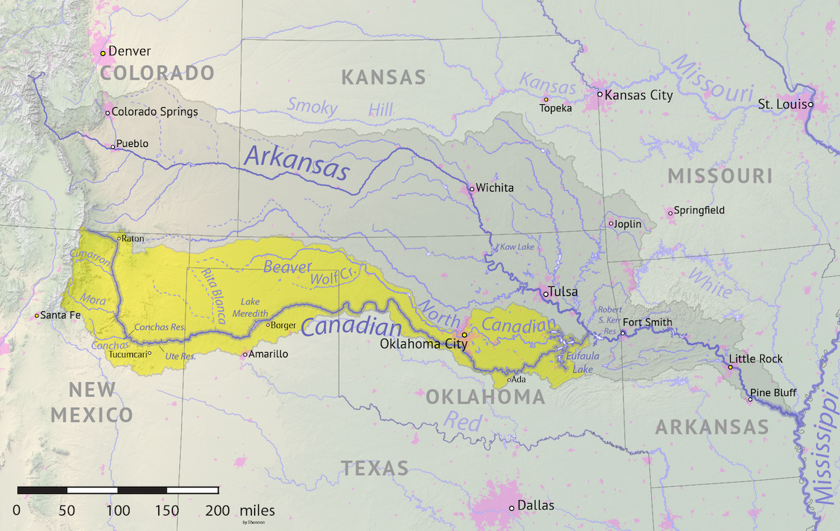 Map showing the location of the Canadian River drainage basin within the Arkansas River basin. Created using USGS National Map and NASA SRTM data.